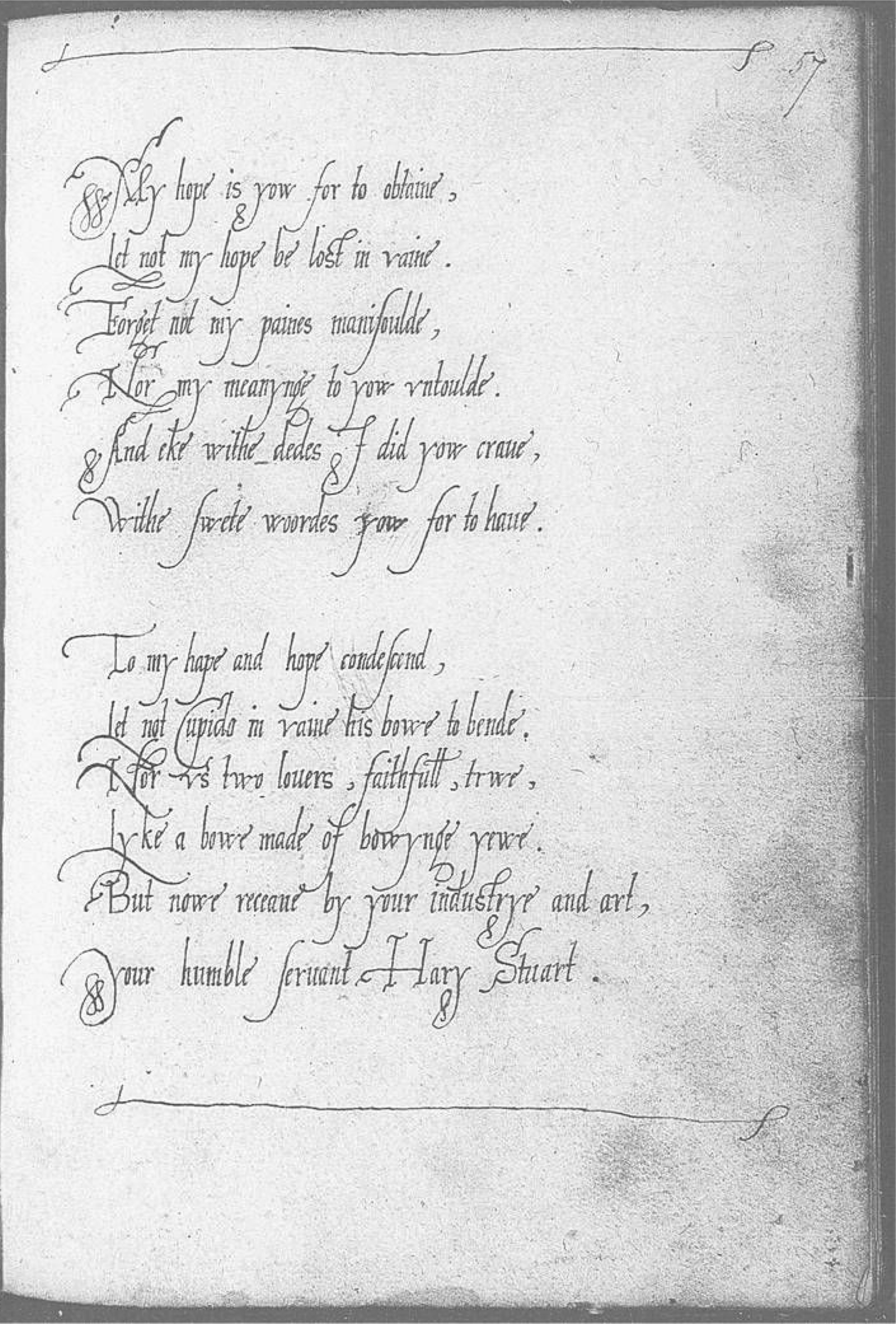 Used with permission. Courtesy of Adam Matthew Digital ( and the Devonshire Manuscript Editorial Group (